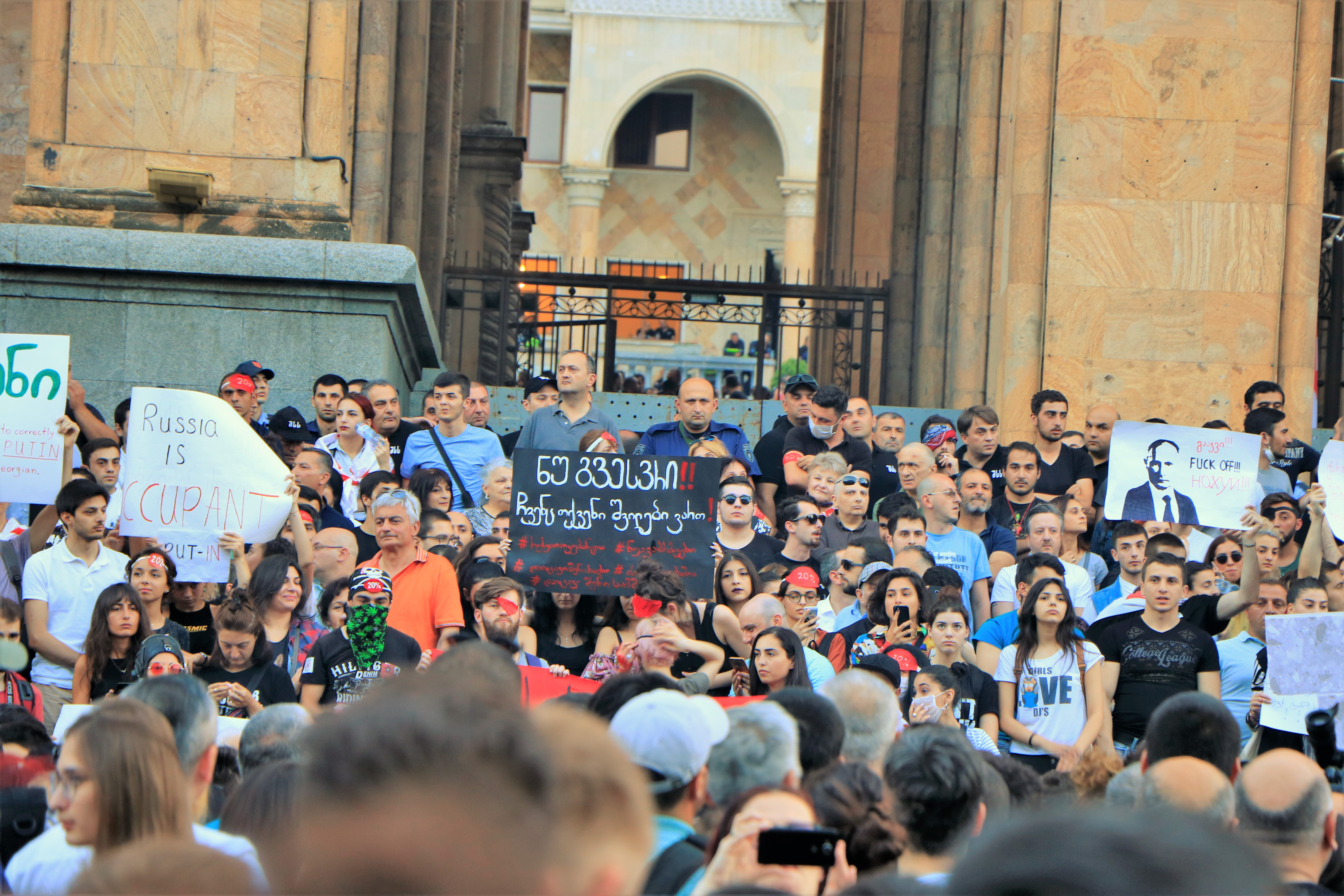 Gavrilov's Night Day 2 - Central demands